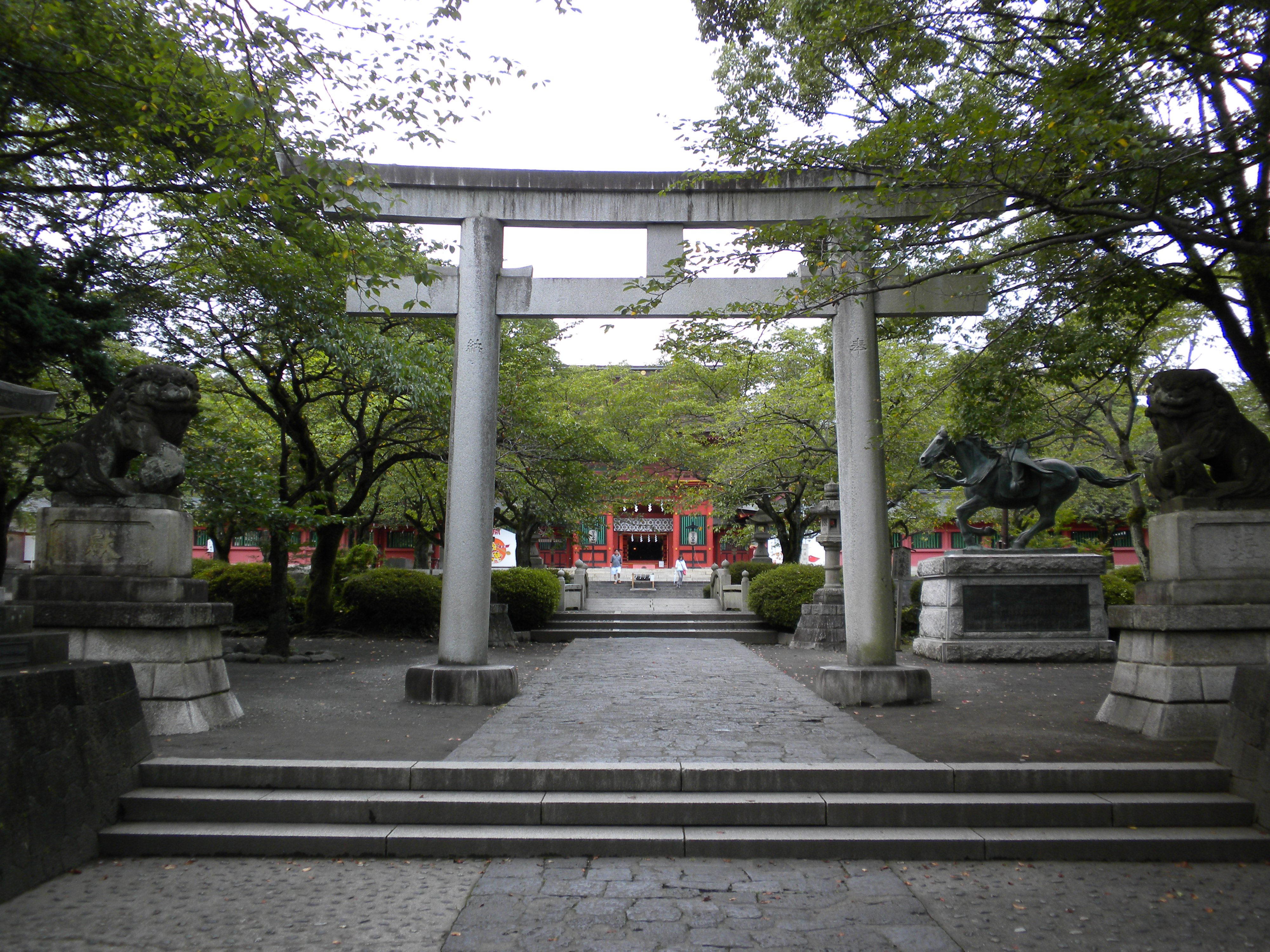 Fujisan Hongu Sengen Taisha Torii